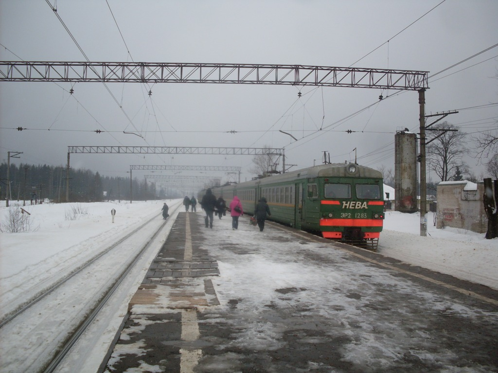 Ст. Дивенская и электропоезд ЭР2-1283 «Нева».